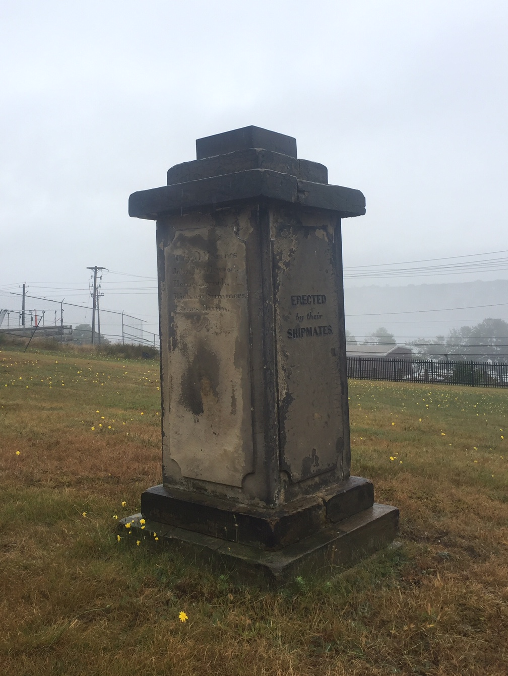 HMS Wellesley, Royal Naval Burying Ground, Halifax, Nova Scotia